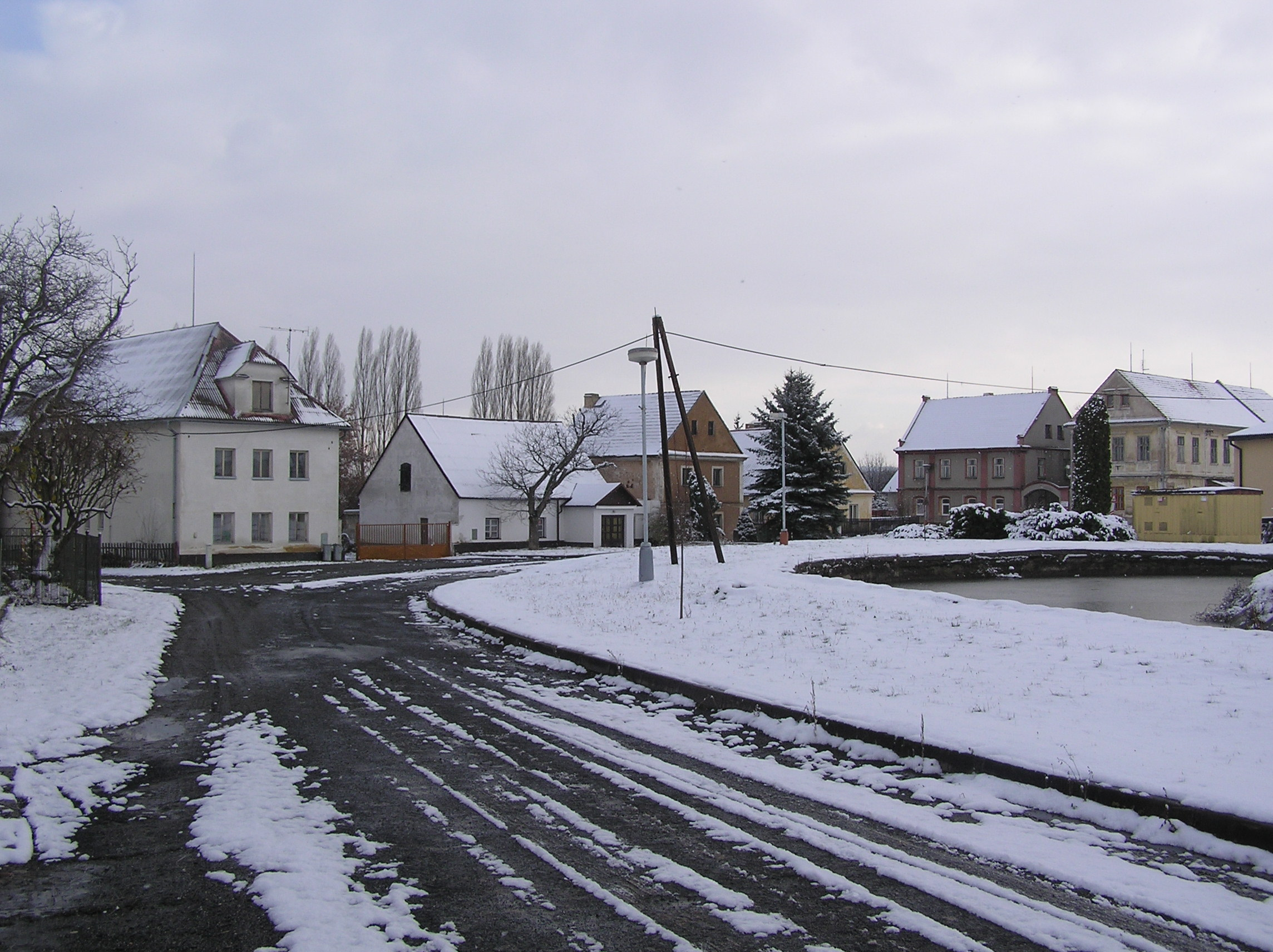 Village square in Blatno